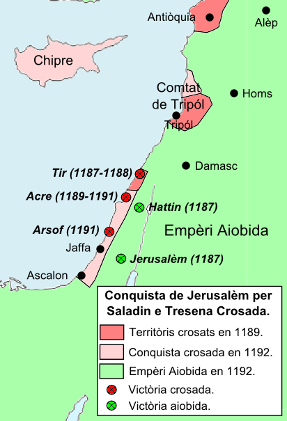 Victòrias de Saladin en 1187 e Tresena Crosada.